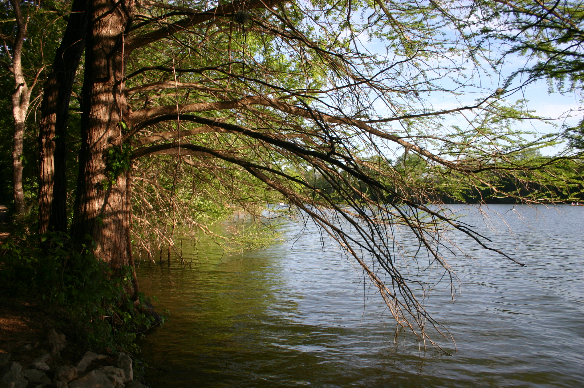 Taxodium distichum planted by water.